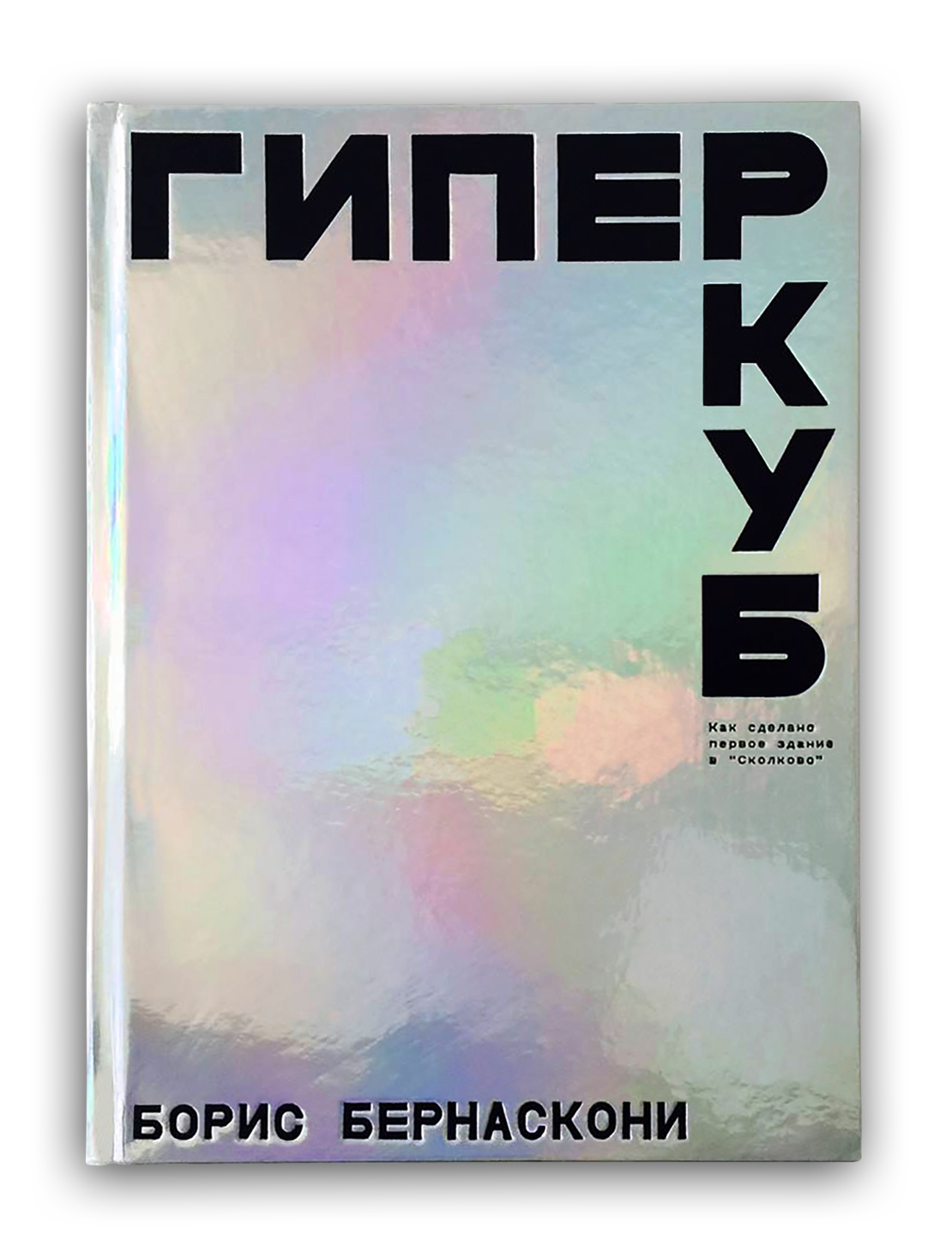 HYPERCUBE book. Making the first building in Skolkovo